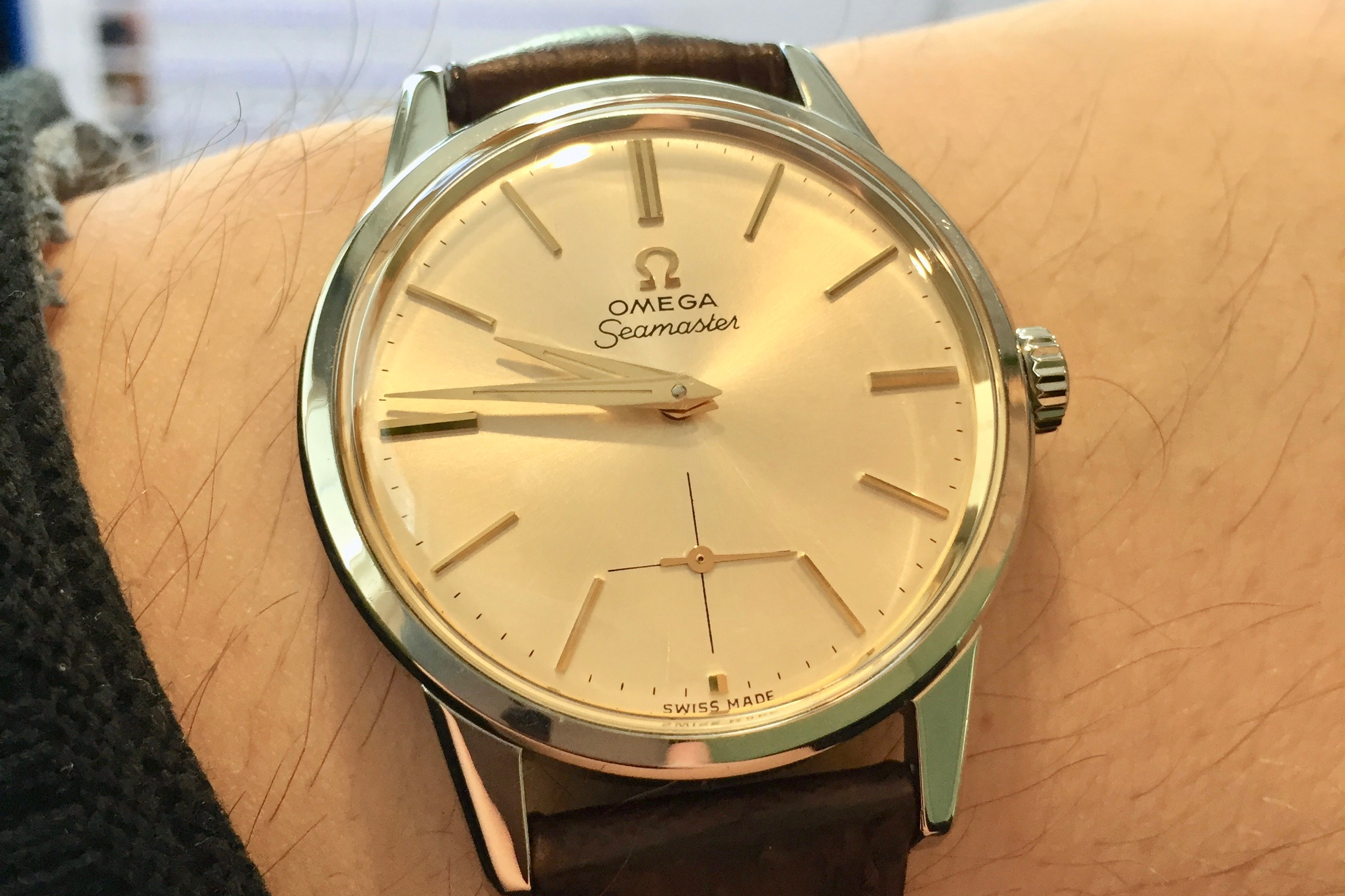 Omega Seamaster, ca. 1960. ⌀ 35mm, manual wind, small seconds.